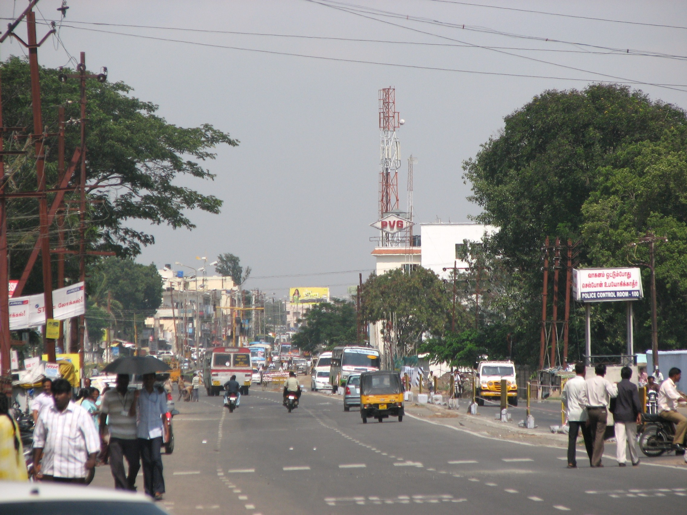 Coimbatore Avinasi road in peelamadu area near arya's hotel.